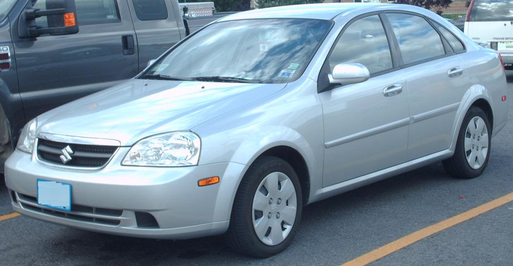 2006-present Suzuki Forenza photographed in Montreal, Quebec, Canada.